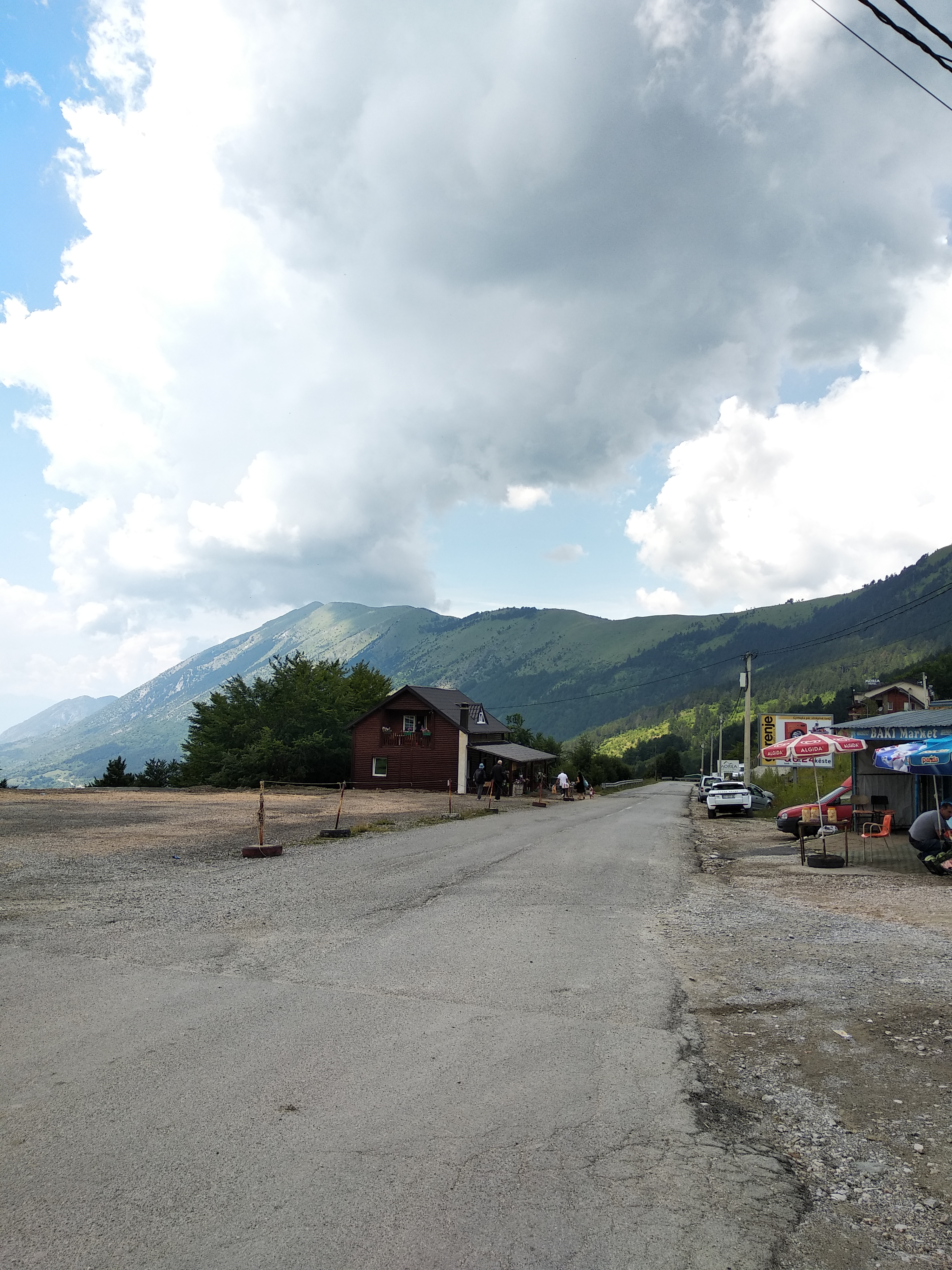 Prevalla in summer